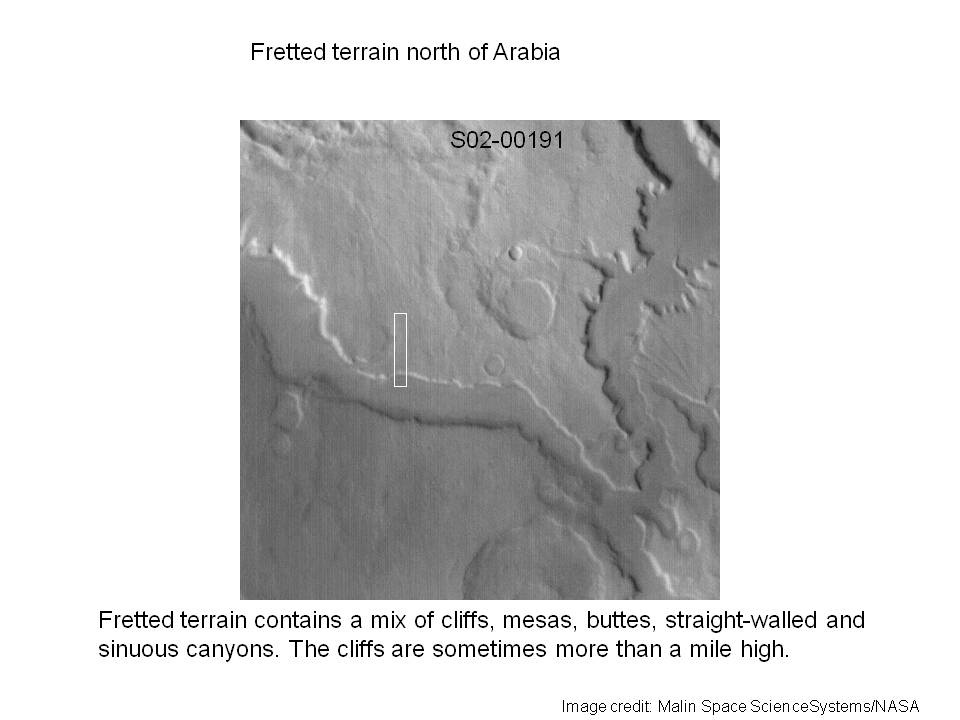 Context image from Mars Orbital Camera (MOC) of Mars Global Surveyor (MGS) of Fretted terrain in Ismenius Lacus. This image was taken with the Mars Orbital Camera MOC) on the Mars Global Surveyor MGS). It's id number is S02-00191, and its location is 327.74 degrees west longitude and 39.93 degrees north latitude. The photo credit is Malin Space Science Systems/NASA.